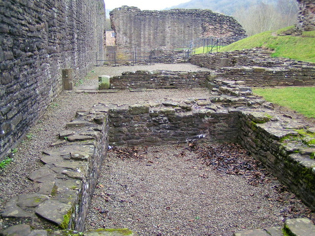 Skenfrith Castlec